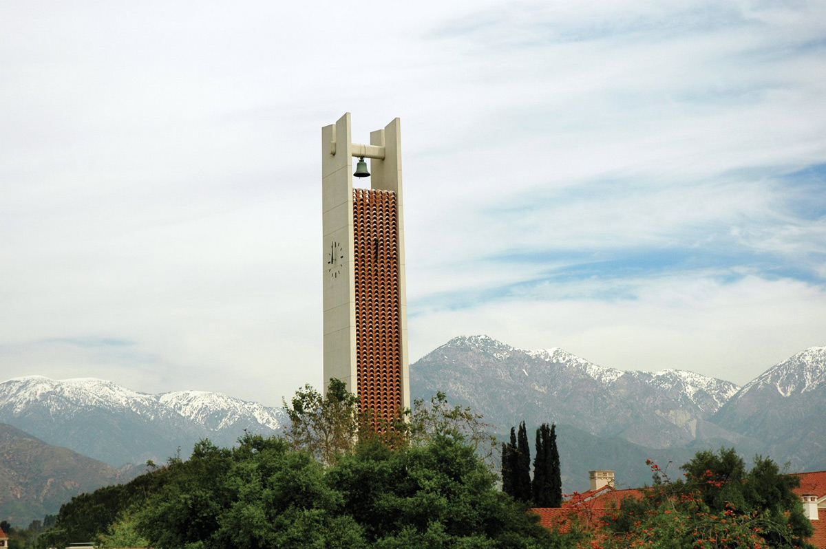 Smith Tower, peeking through the San Gabriel Mountains on a winter day